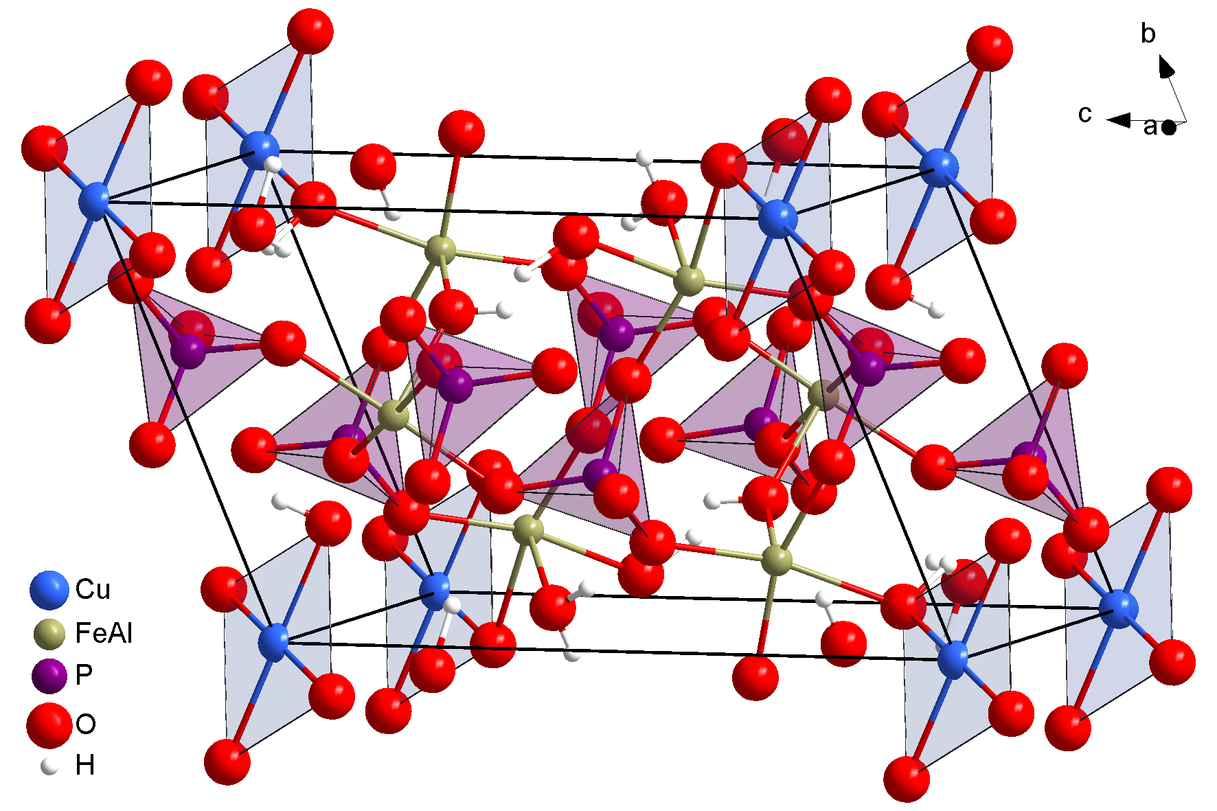 Crystal structure of Turquoise in space group P-1.